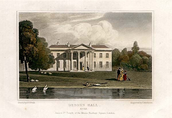 View of Debden Hall, Uttlesford, Essex, England.